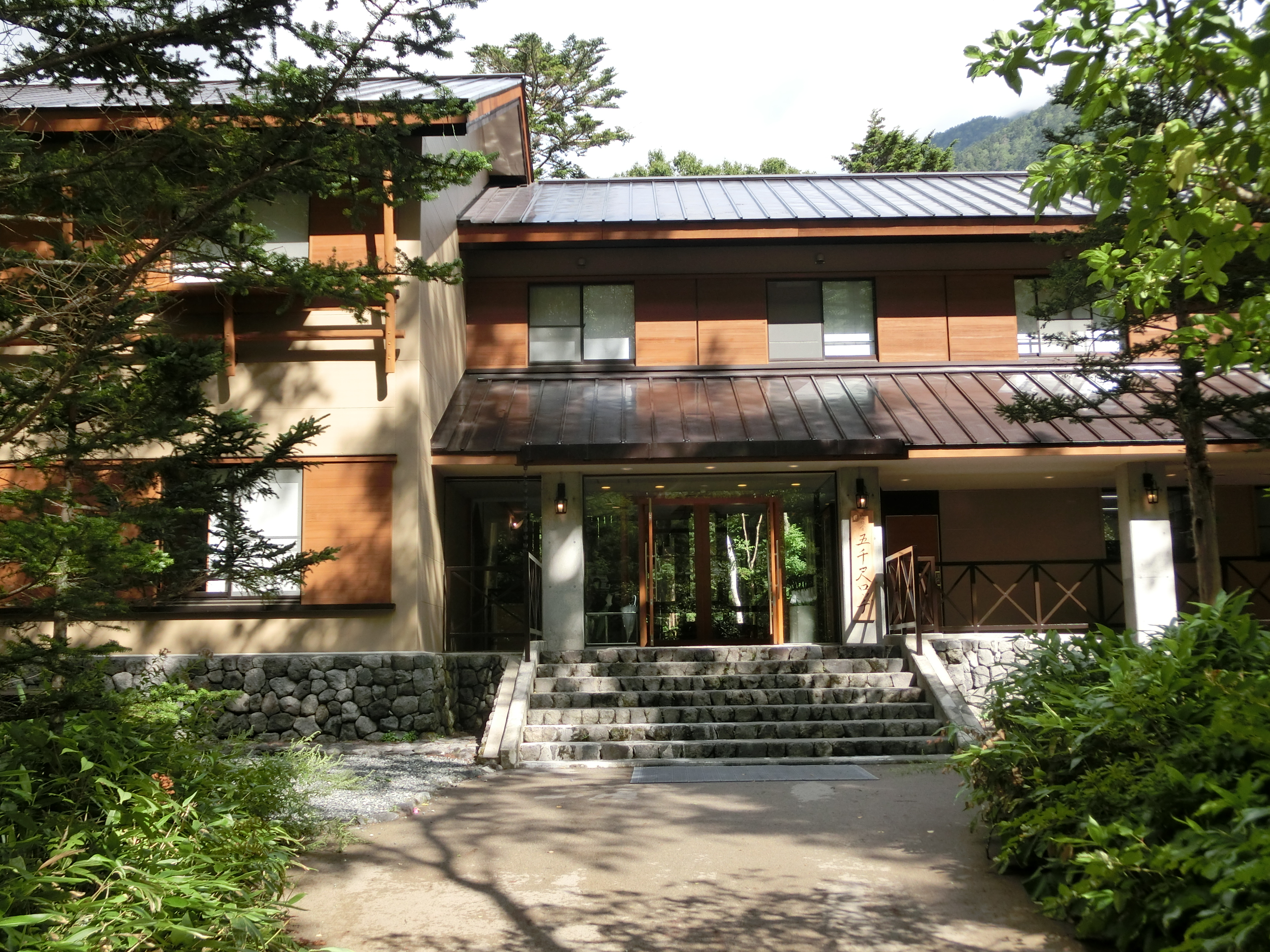 Gosenjaku Lodge